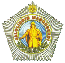 Order "Jaloliddin Manguberdi"